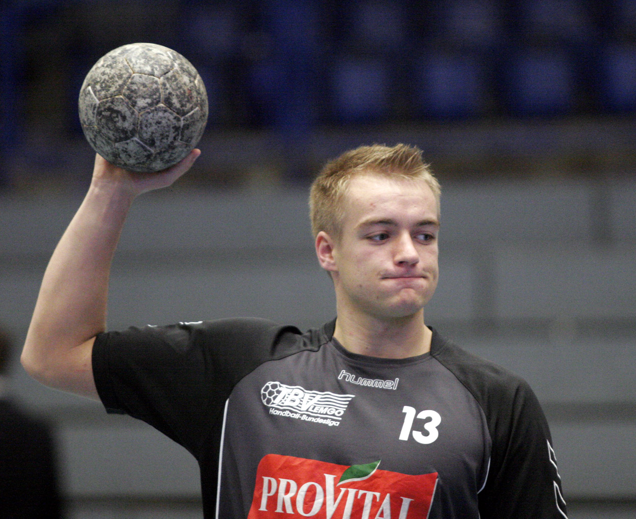 Jörg Lützelbergers, handball player of TBV Lemgo (Germany), in the Lipperlandhalle during the match TBV Lemgo vers. Wilhelmshavener HV on October 13th, 2007